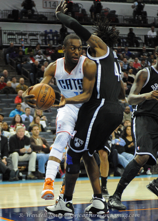 Charlotte Bobcats' Kemba Walker is guarded by Brooklyn Nets' Gerald Wallace.